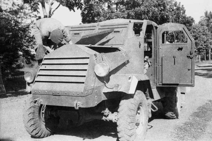 Soldiers at an armored vehicle. (remark: GM C15TA armoured personnel carrier of Canadian production)